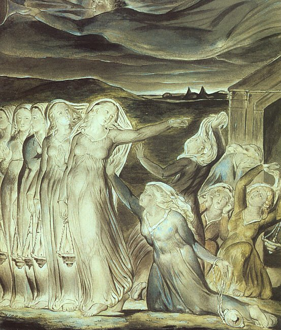 The Parable of the Wise and Foolish Virgins/ 1822: Tate Gallery, London